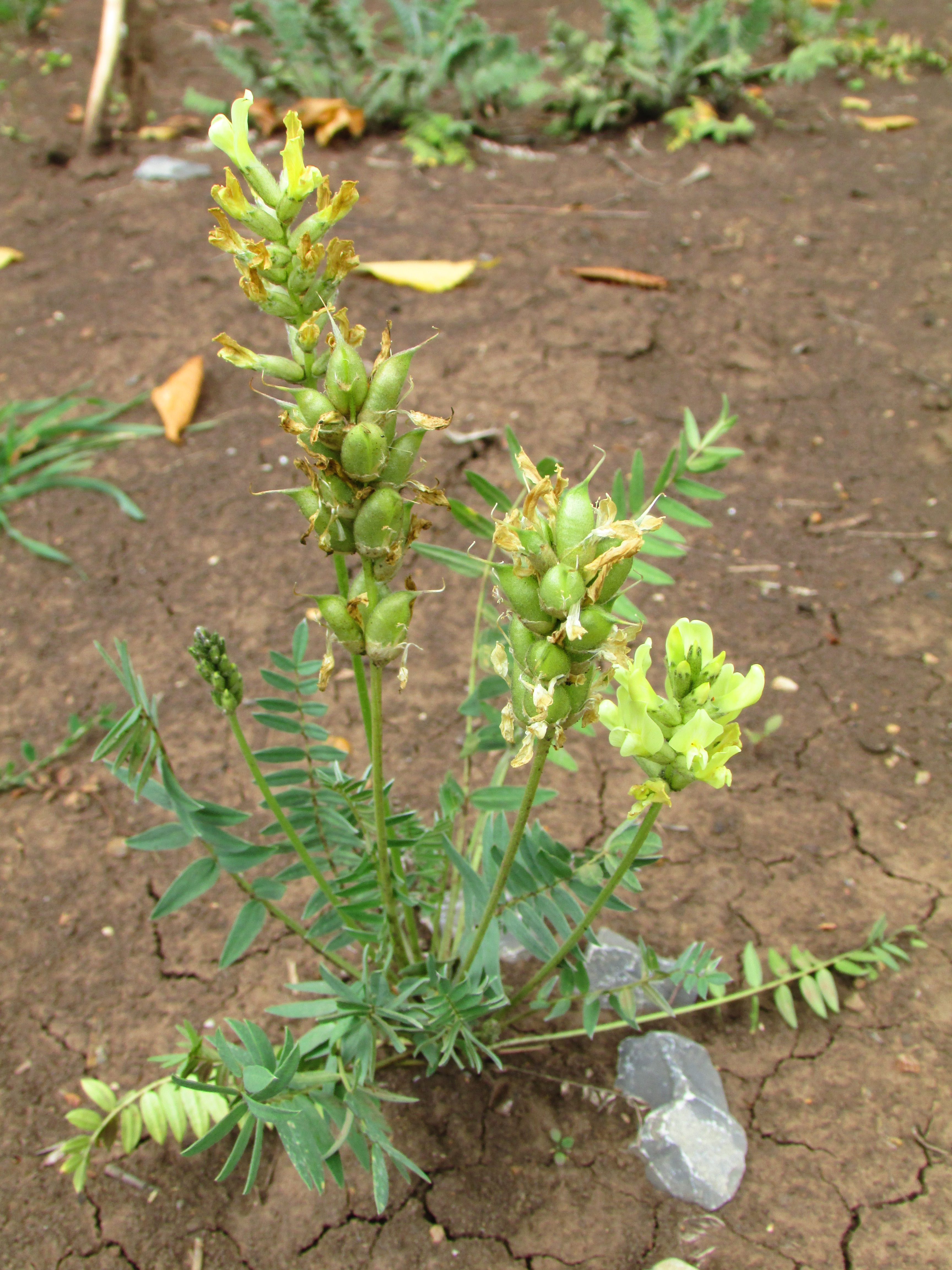 Object of dissertation research – an endemic of Zavolzhye Oxytropis hippolyti Boriss's (this. Fabaceae), included in "The Red List of the Russian Federation", 3a – a rare species (2008).